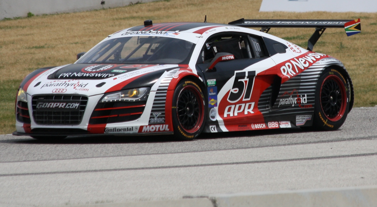 The APR Motorsport GT car driven by Jim Norman and Dion von Molkte at a 2012 race at Road America.